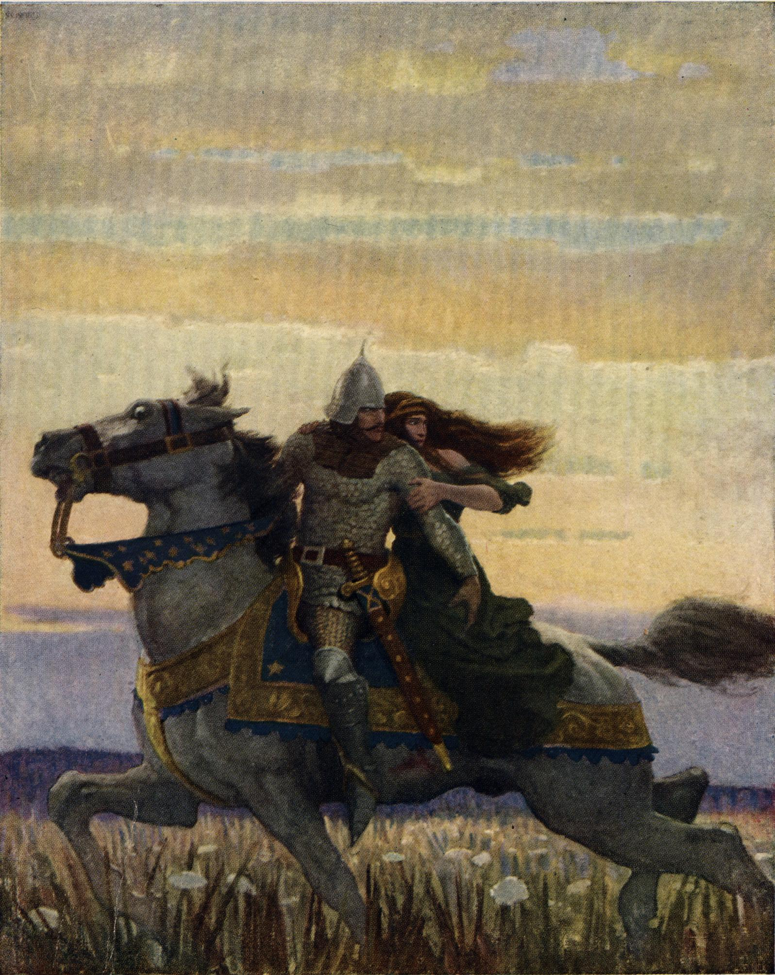 Illustration from page 278 of The Boy's King Arthur: Launcelot and Guenevere - "He rode his way with the queen unto Joyous Gard."